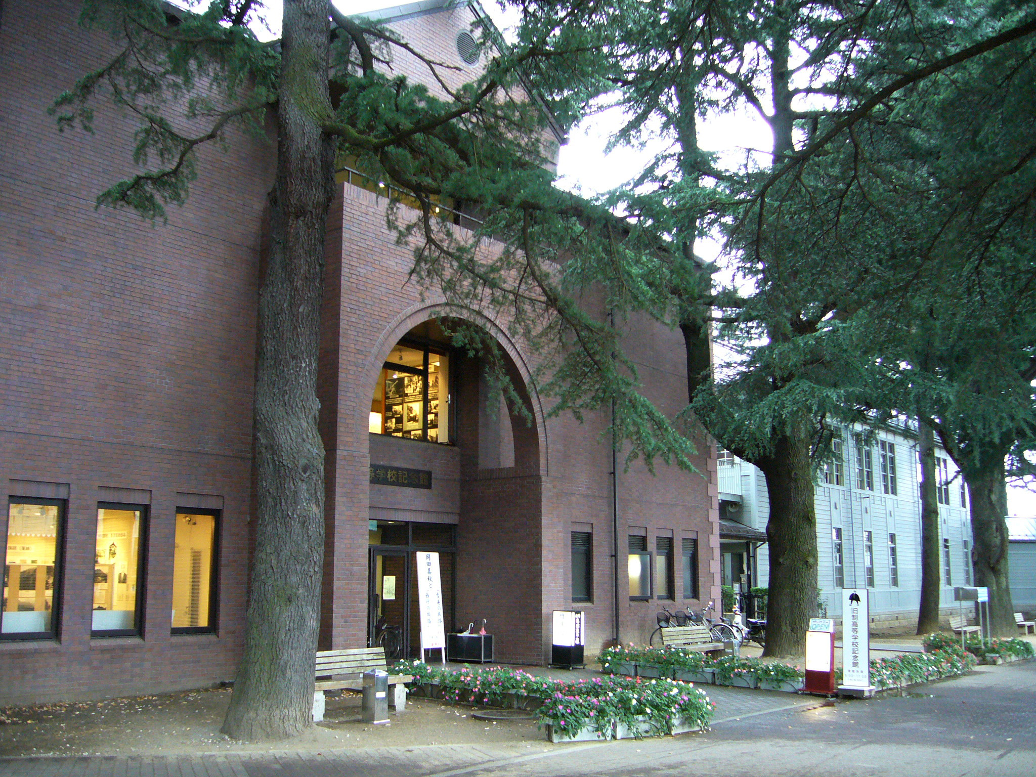 The Memorial Hall of Old Higher School in Matsumoto, Japan